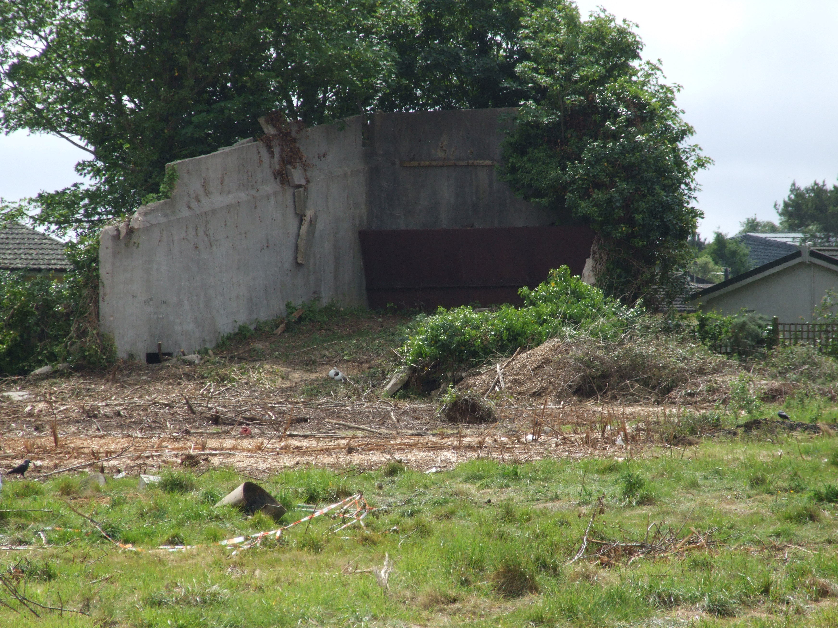 Rifle Range discovered during building preparation on NE side of WWII RAF Warmwell